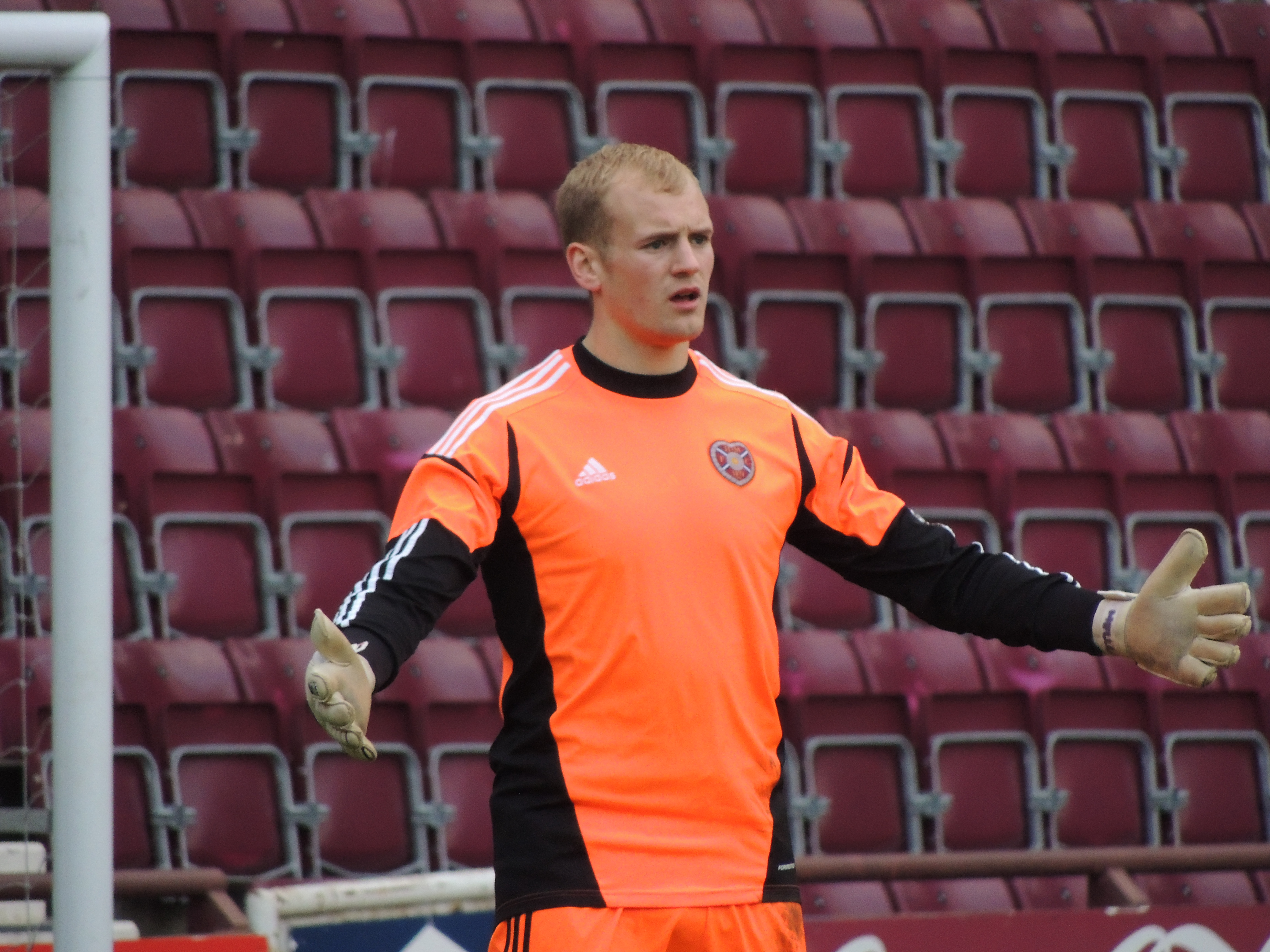 Photo of Mark Ridgers in goals for Hearts Under 20's versus Hamilton